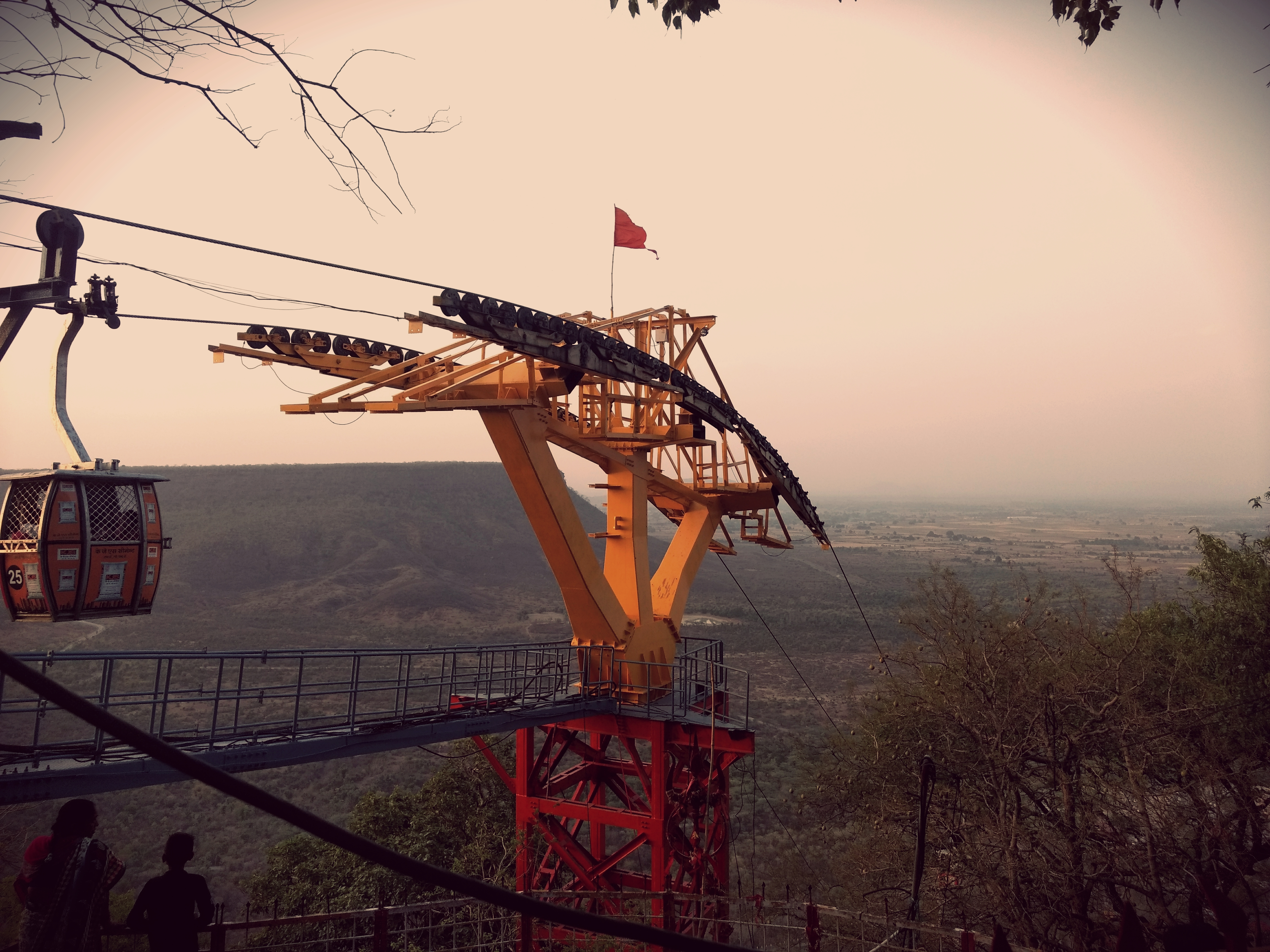 It is an image of a ropeway post in action, shot in evening with a glimpse of the valley and hills that surrounds the Temple and sunset sky in the background.